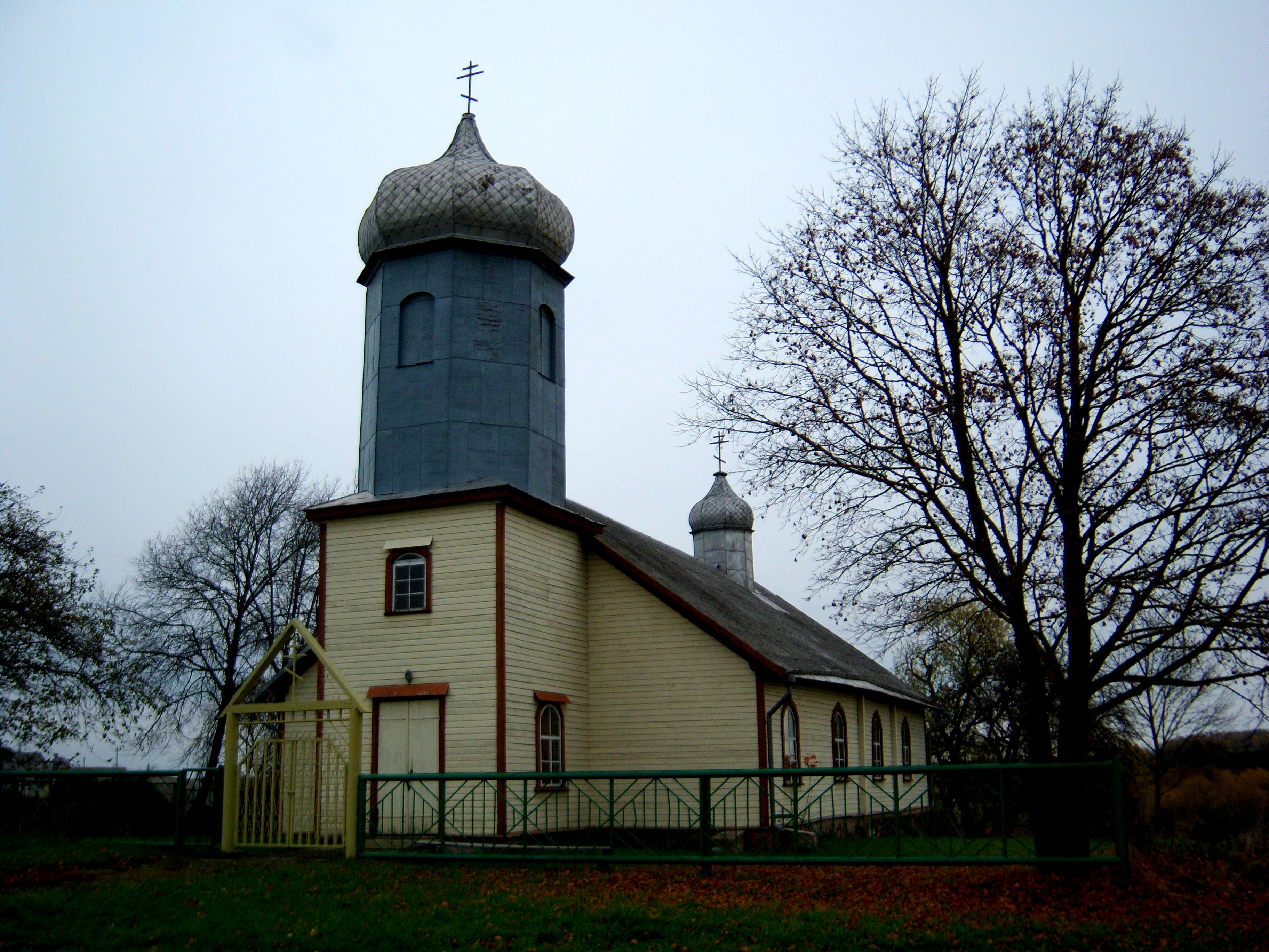 Orthodox Church of Old Believers in Paežeriai (Anykščiai), Lithuania